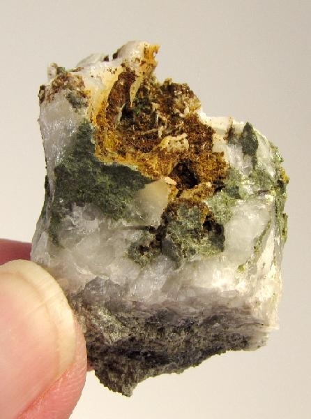 Oosterboschite, Trogtalite, Cuprosklodowskite, Quartz Locality: Musonoi Mine, Kolwezi, Kolwezi District, Katanga Copper Crescent, Katanga (Shaba), Democratic Republic of Congo (Zaïre) Size: 4.2 x 2.9 x 2.3 cm Oosterboschite and trogtalite are very rare selenides, with the former having palladium and copper and the latter having cobalt. The famed Musonoi is the Type Locality for Oosterboschite. This piece is from the Howard Belsky Collection, who collected many rare species. We believe the splendent gray crystals on one end surrounded by a green mineral are the oosterboschite. The quartz matrix holds several vugs richly lined with gemmy, green cuprosklowdoskite needles. The brown crystals richly lining one vug could be oxidized trogtalite, as MINDAT lists this species as being rose-violet. X-ray work would be needed to confirm species identifications in a normal case but, as this is from the Belsky Collection, it’s pretty certain to be legitimate. He had his own analytical setup and did much work with friends in museums, specializing in rarities.